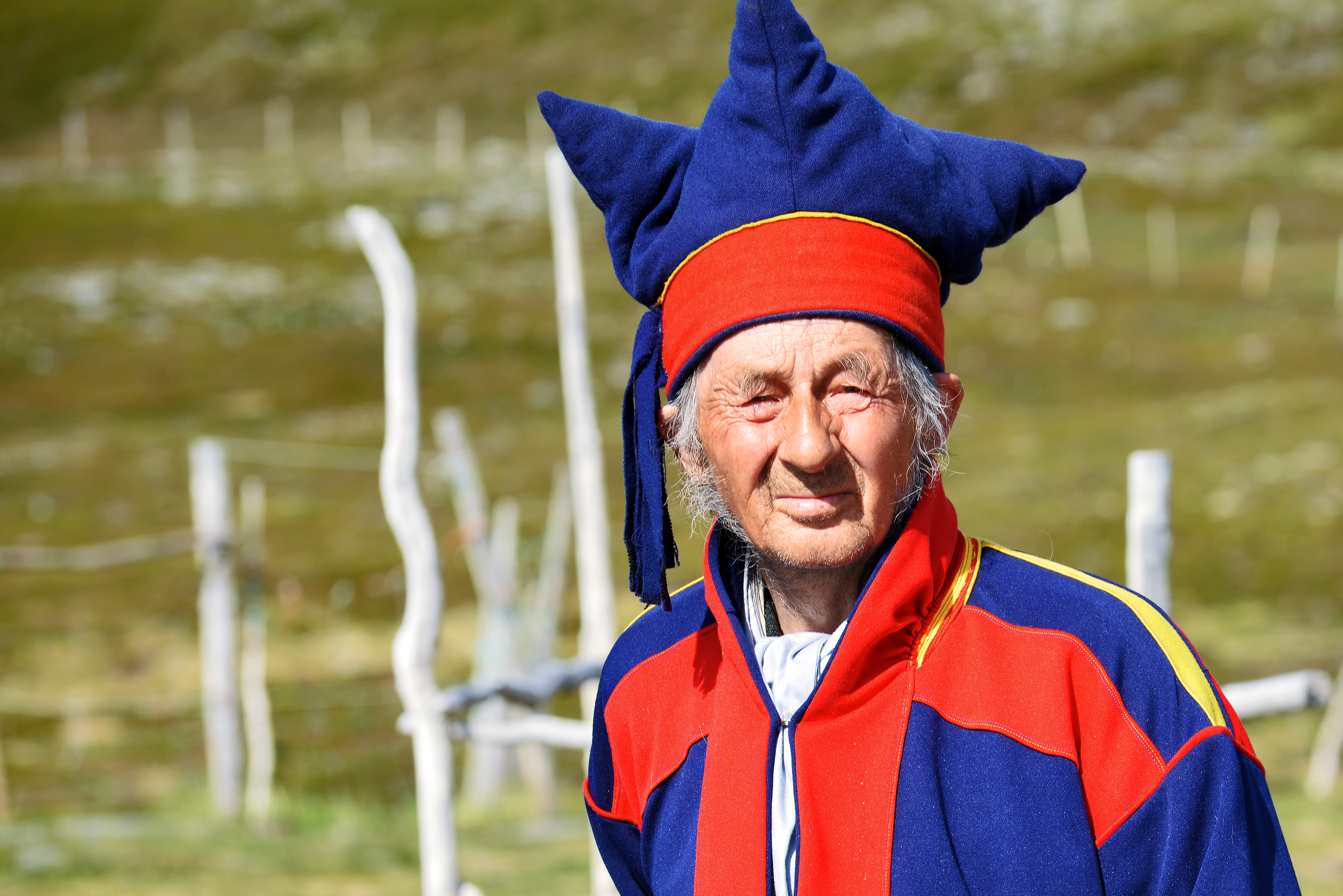 The Sami people, also spelled Sámi or Saami, are the indigenous Finno-Ugric people inhabiting the Arctic area of Sápmi. This is a small siida, a reindeer foraging area